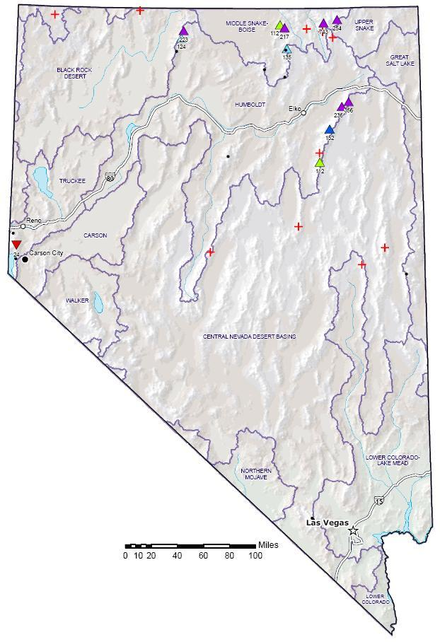 Precipitation in the Central Nevada Desert Basins 2010